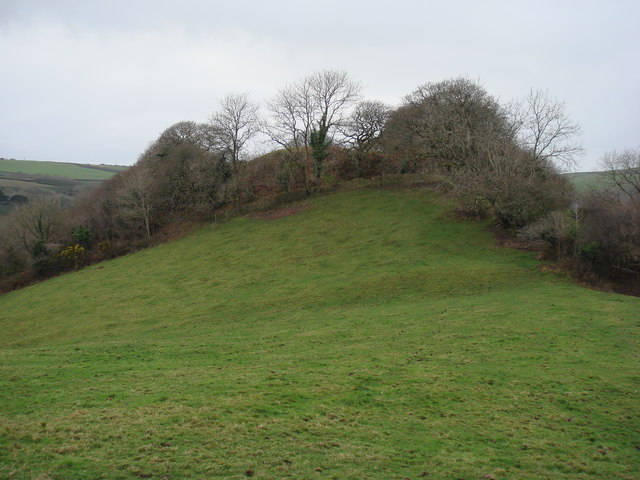 Penstowe Castle near Kilkhampton View of the eastern end of the main site from the footpath entrance to the field. The mound in this photo is a natural feature, augmented by earthworks. The inner and outer baileys and motte are obscured by the trees.